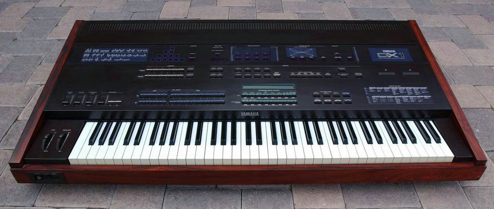 Yamaha DX1 - front view of synthesizer, 1 of 140 made